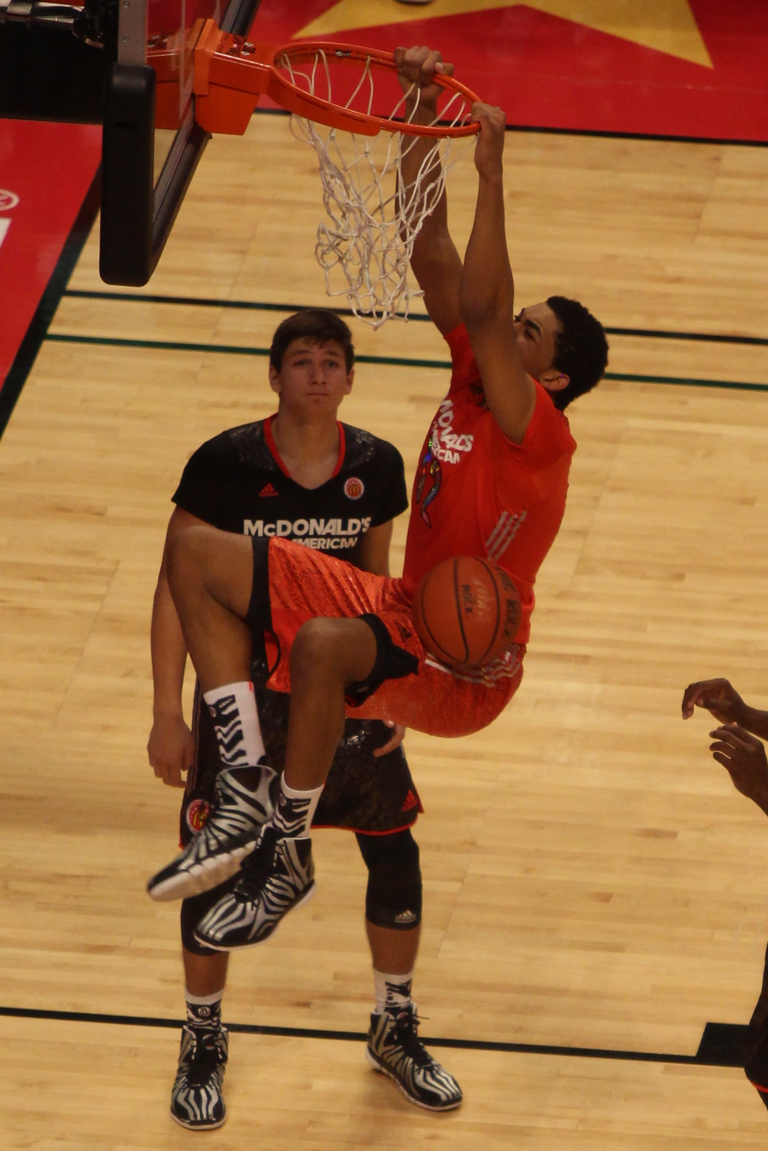 Karl Towns in front of Grayson Allen in the w:2014 McDonald's All-American Boys Game